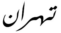 Simple Persian "Tehran"